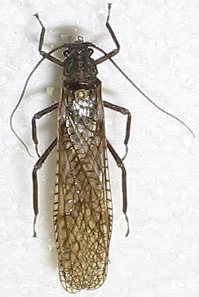 Picture of a member of the family Pteronarcyidae (Plecoptera) Author = Trépas